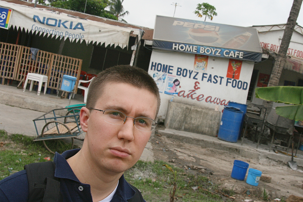 Prinz Pi (a German Hip-Hop Artist) posing infront of the home boyz cafe. taken during the Virus Free Generation Hip-Hop Tour in Dar es Salaam Tanzania